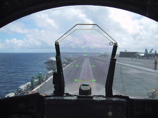 Photograph taken by a pilot on the VFA-151 of the HUD of a F/A-18C.